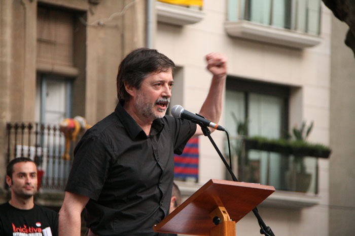 Rafa Díez Usabiaga, former leader of the independentist and socialist trade union "Langile Abertzaleen Batzordeak (LAB)" at a meeting of Iniciativa Internacionalista.